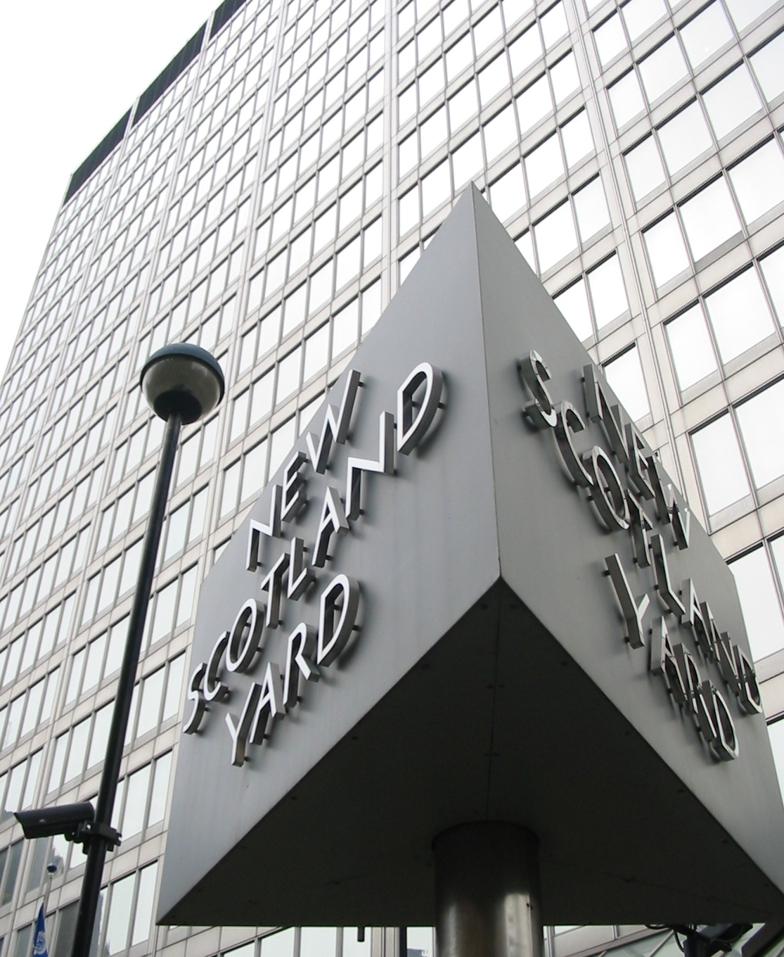 London